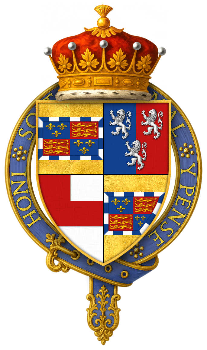 Quartered arms of Sir William Somerset, 3rd Earl of Worcester, KG Quartering based on the arms in the 16th century portrait of Worcester. William Somerset, 3rd Earl of Worcester